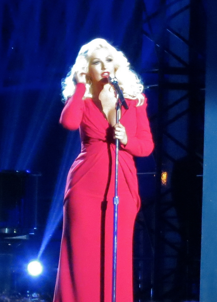 Christina Aguilera Singing Beautiful to the Breakthrough Prize Scientists.